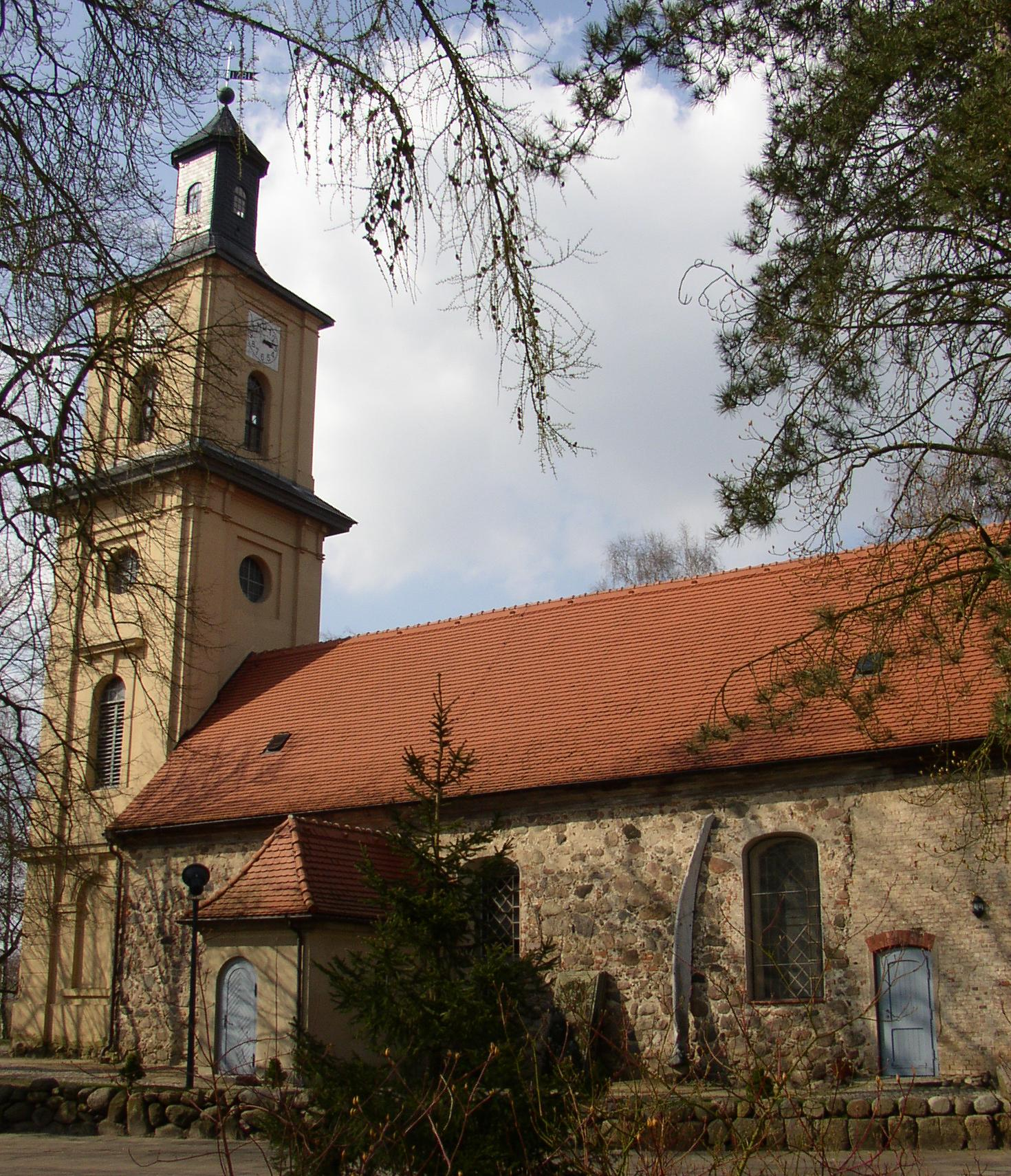 Church of Wustrau, Fehrbellin municipality, Ostprignitz-Ruppin district, Brandenburg state, Germany Object location52° 50′ 55.51″ N, 12° 51′ 47.55″ E